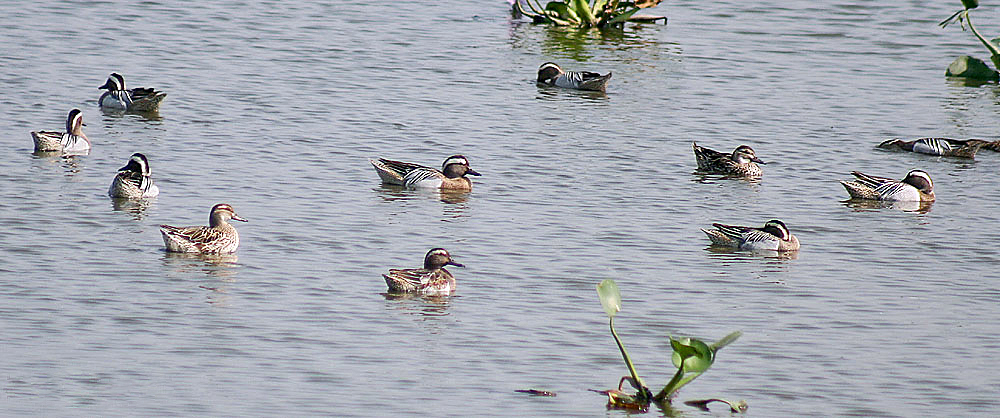 Garganey (Anas querquedula) in Kolkata, West Bengal, India.